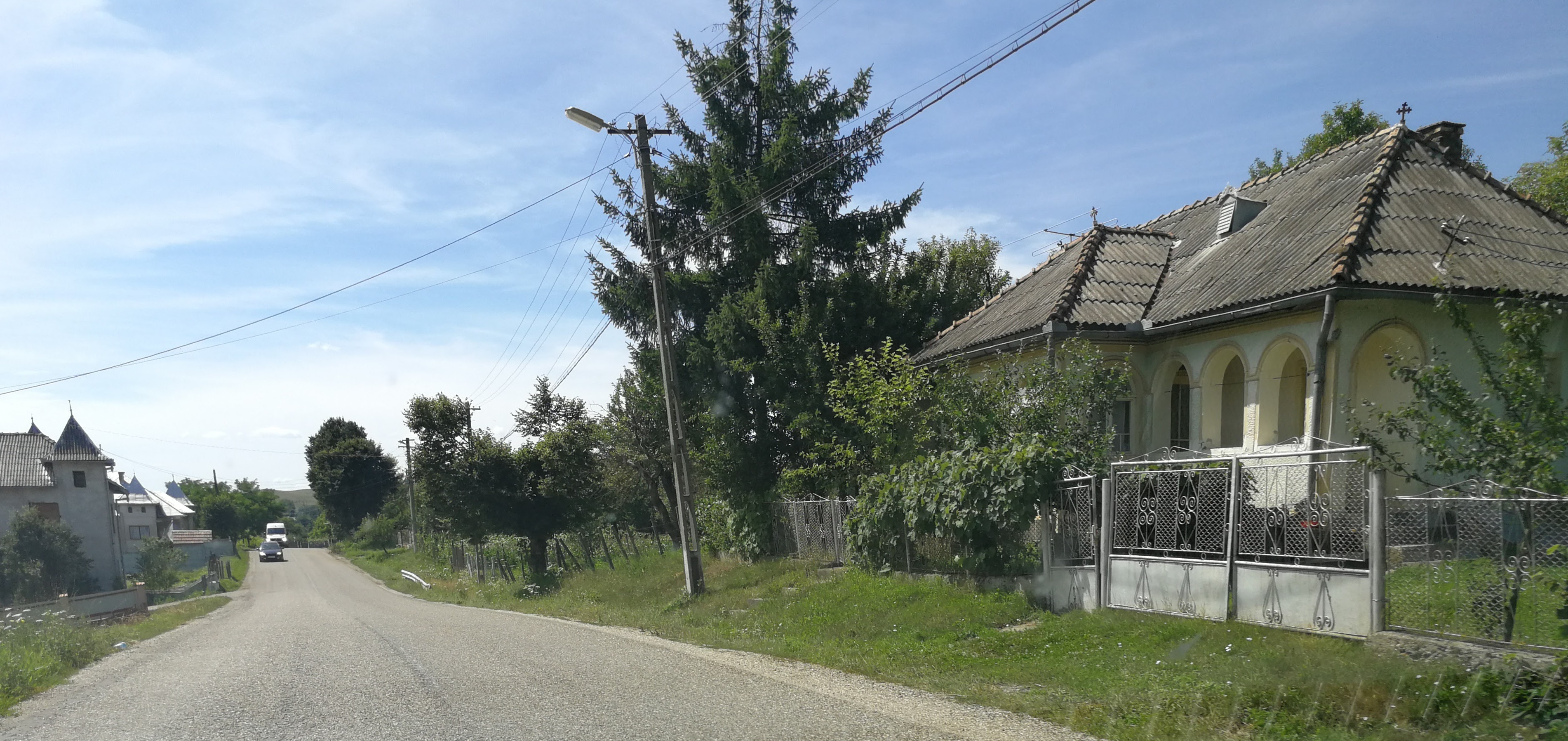 Blăjenii de Jos, Bistrița-Năsăud County, Romania